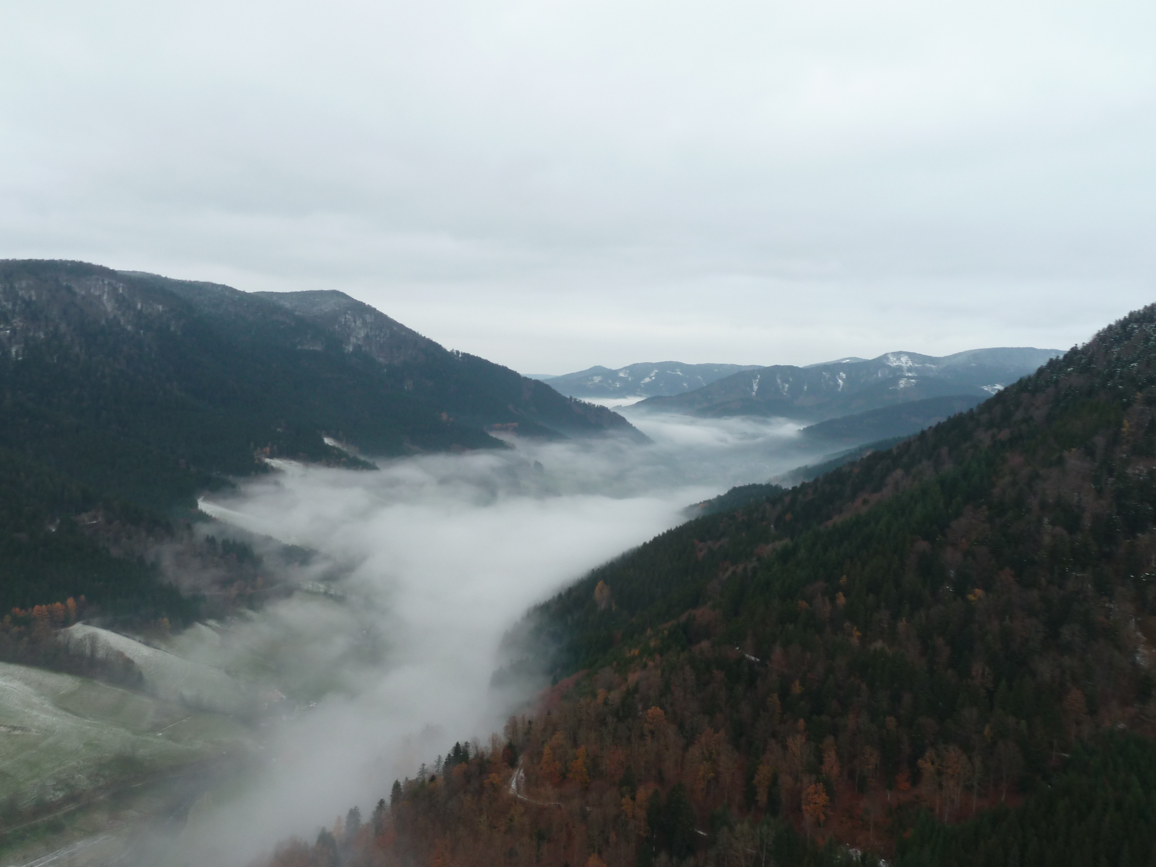 Fog in Simonswäldertal